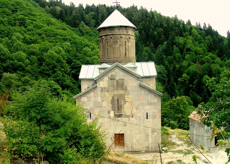 Chulevi monastery